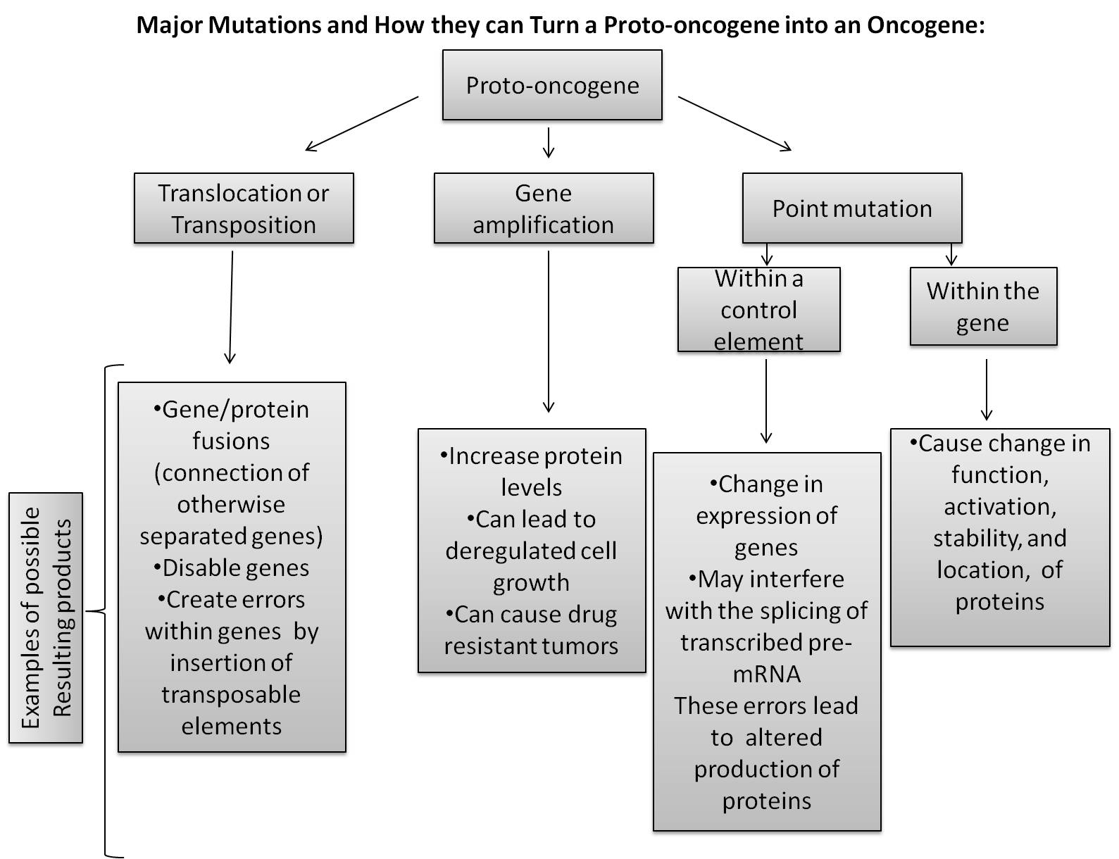 Examples of ways to convert proto-oncogenes into cancer causing genes (oncogenes).